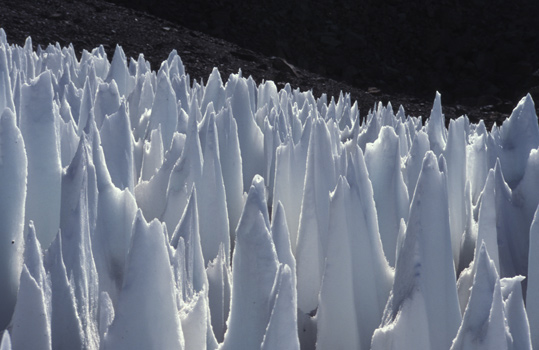 Field of Penitentes on the Upper Rio Blanco, Central Andes of Argentina. The blades are between 1.5 and 2m in height, slightly tilted northwards, or more exactly about 11°, the approximate position of the sun at noon at this latitude and time of the year.